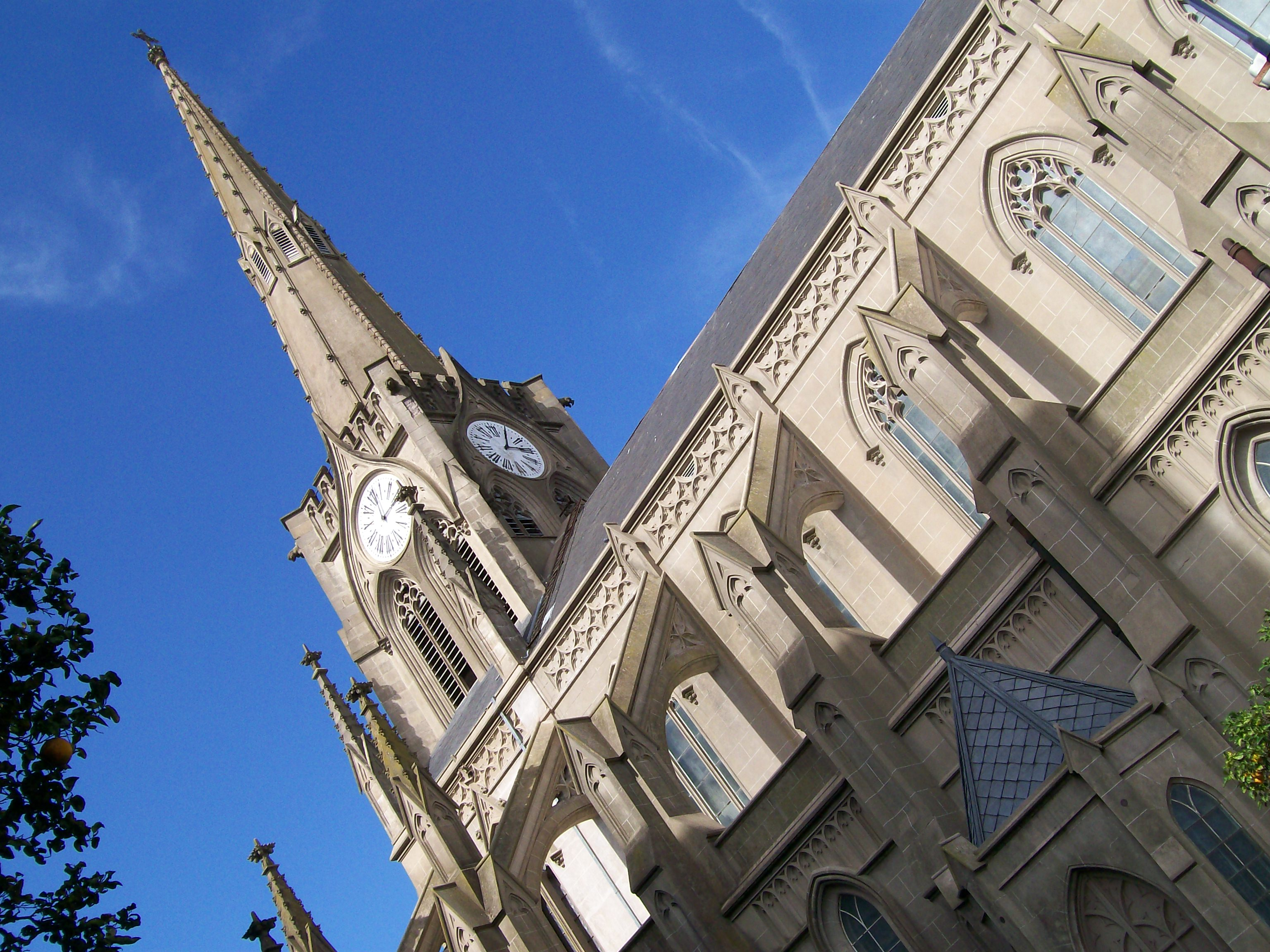 Iglesia Catedral de Azul Nuestra Señora del Rosario, viewed from Colón street.